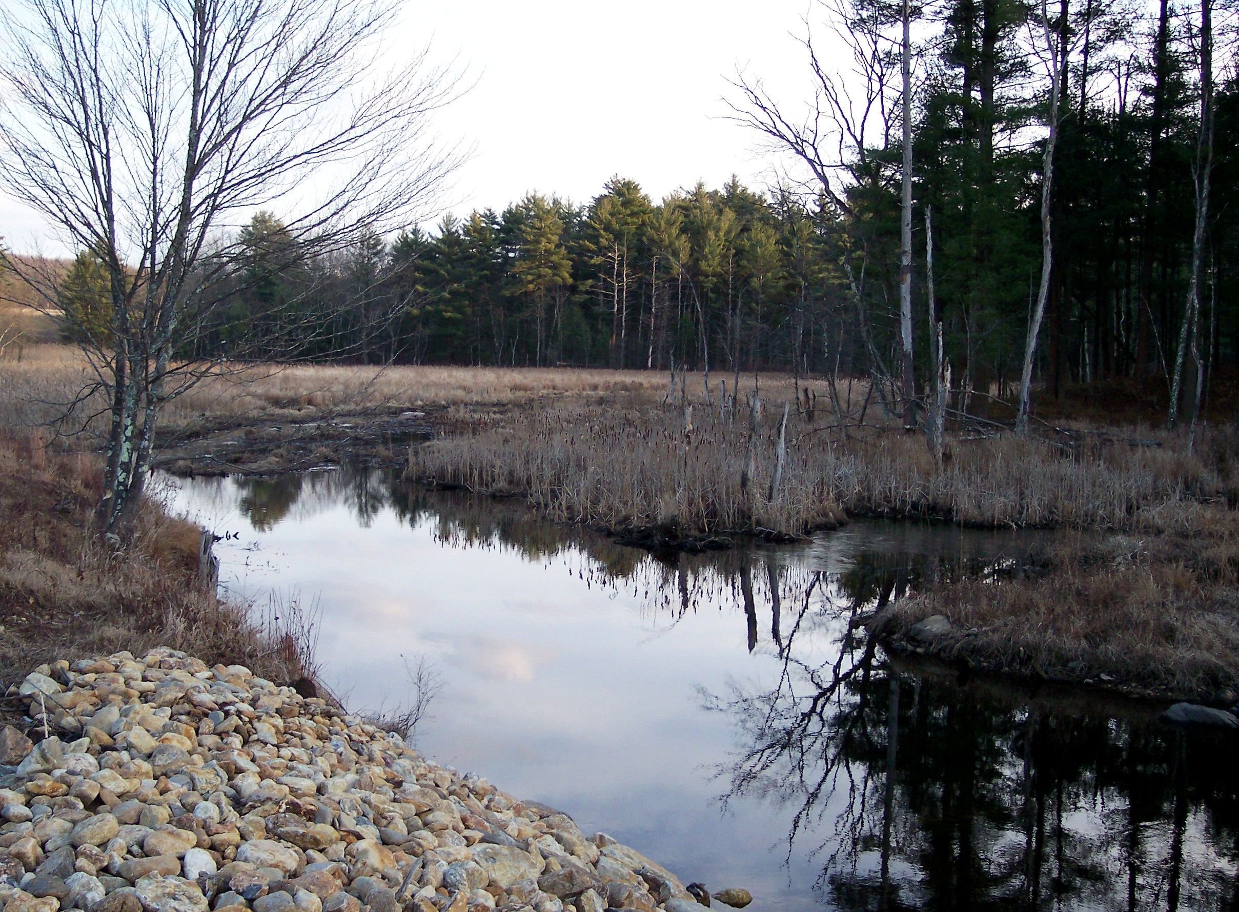 Cranberry River in Spencer, Massachusetts. Photo by Richard B. Johnson